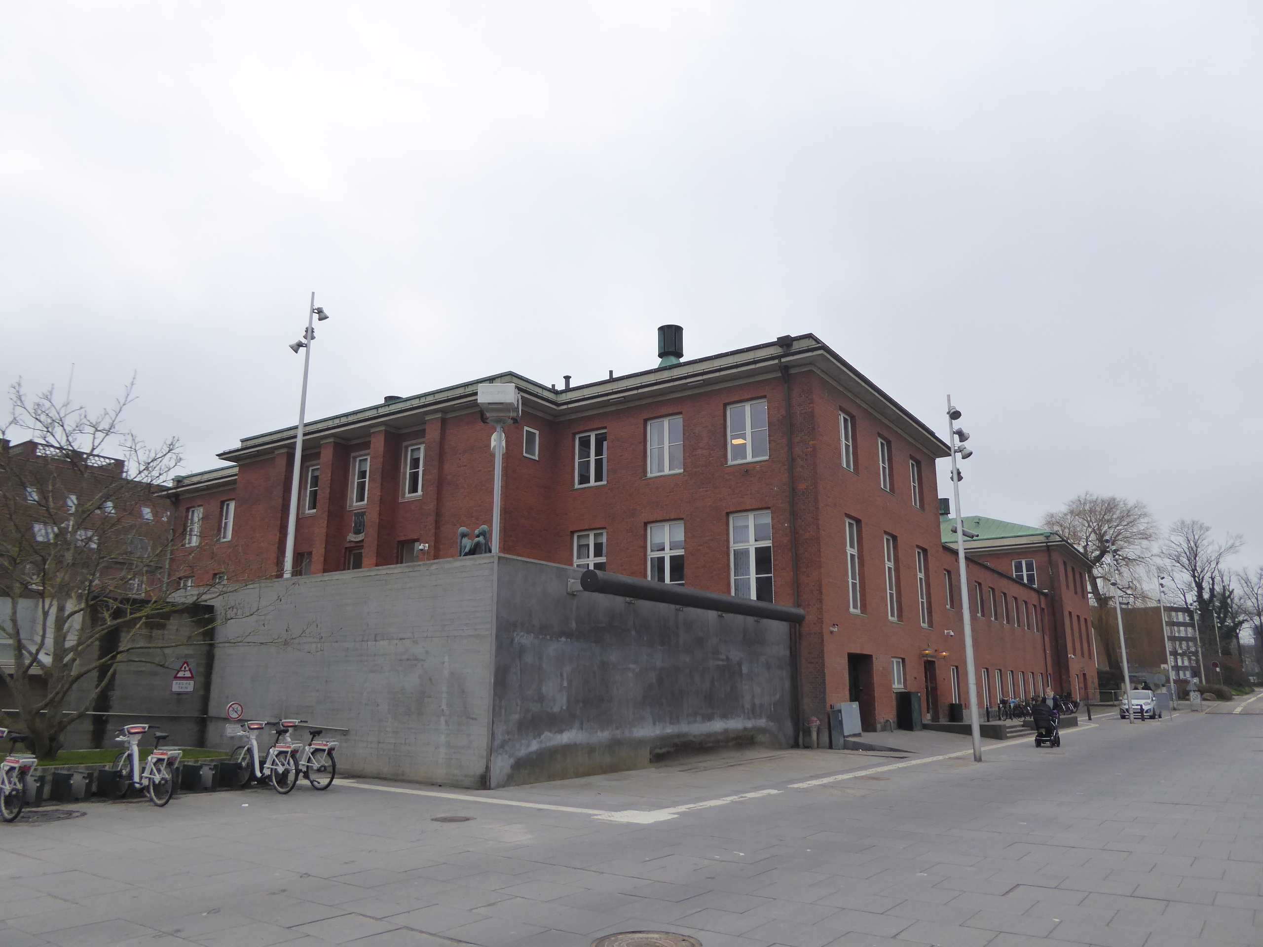 The main library of Frederiksberg at the corner of Falkoner Plads and Solbjergvej in Frederiksberg in Copenhagen.